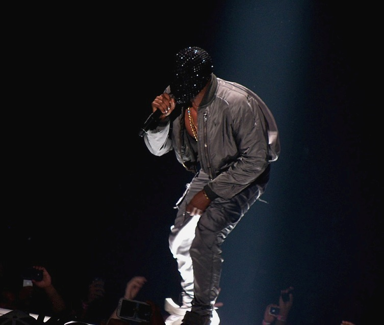 A masked Kanye West performing at Staples Center on October 26, 2013 in Los Angeles on The Yeezus Tour.